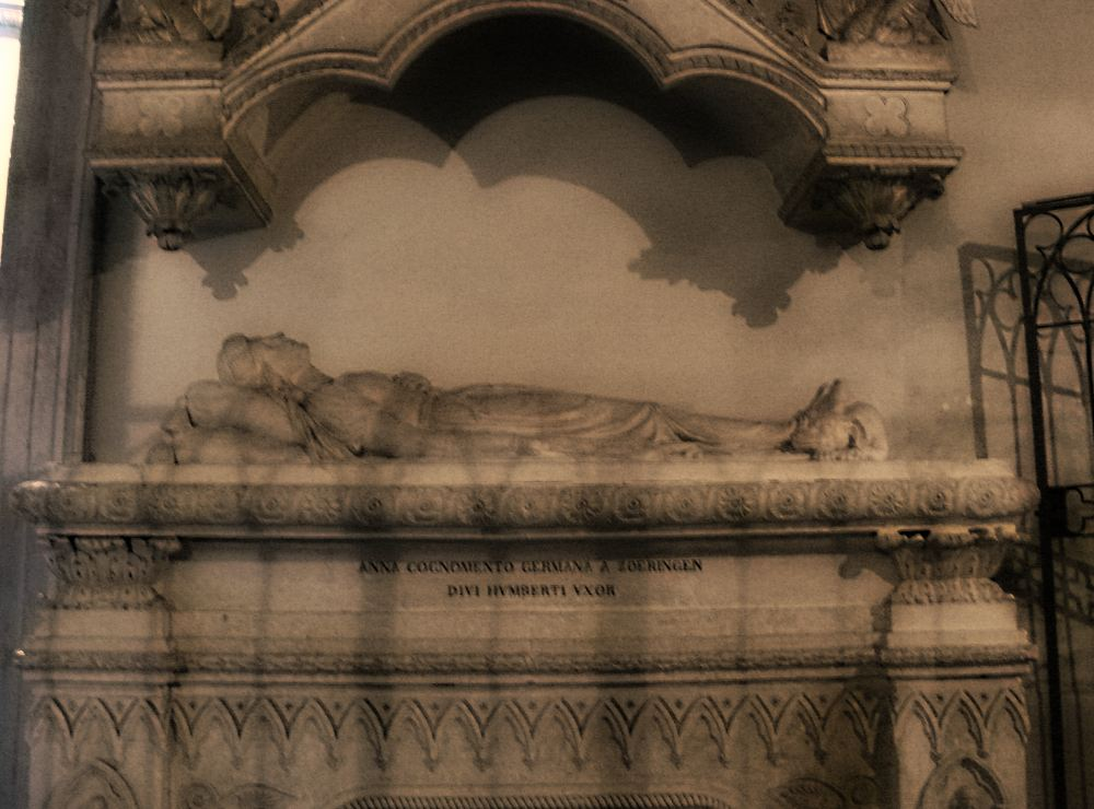 Clemenza of Zähringen